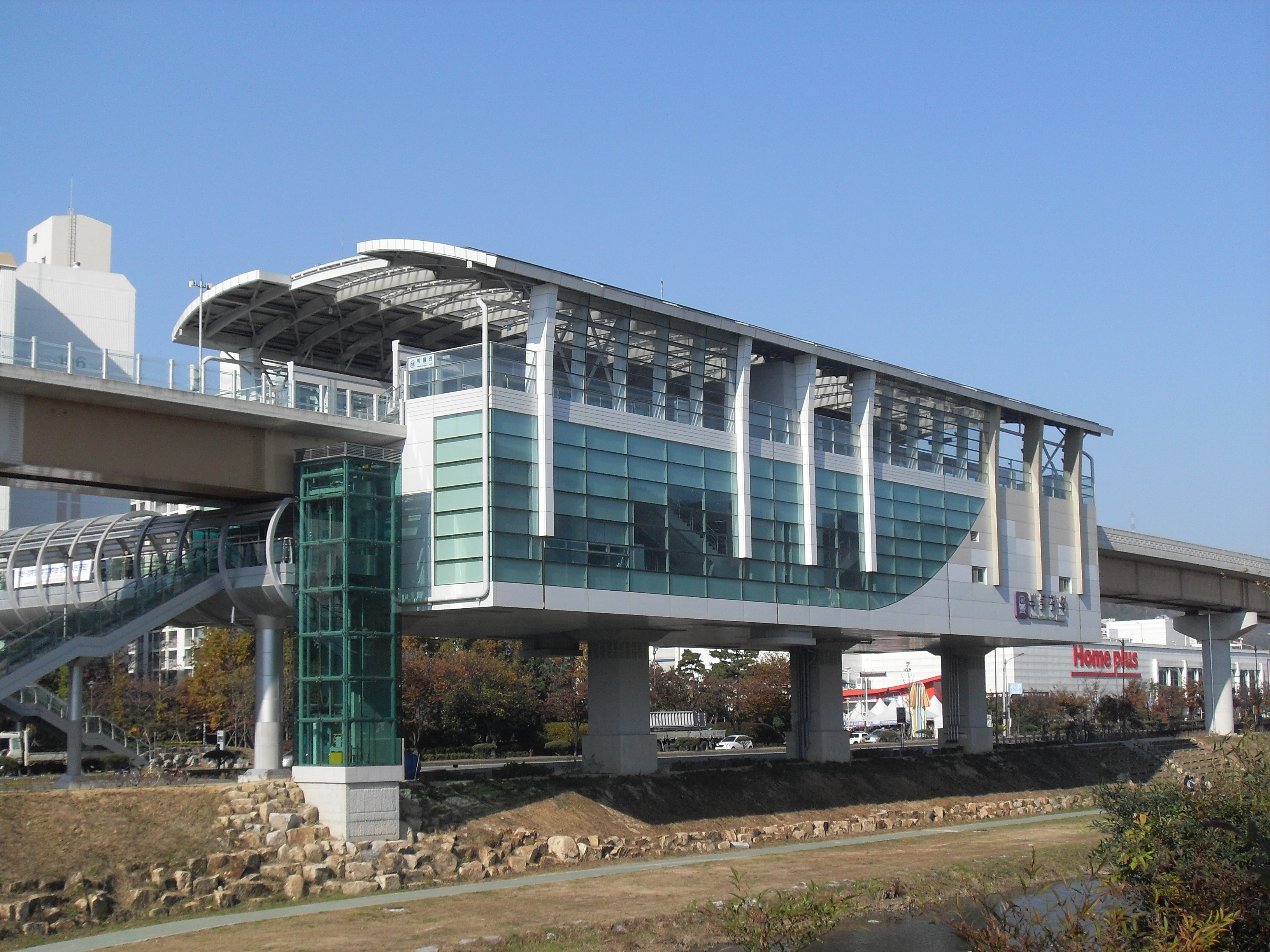 Busan Gimhae lightrail station (Gimhae National Museum Staion)